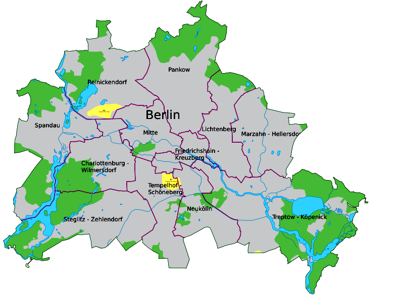 Map of Berlin and its districts (improved version of Berlin.svg)